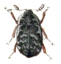 Trogoderma glabrum, from Calwer's Käferbuch, Table 16, Picture 9. Taxonomy was updated to 2008, using mostly the sites Fauna Europaea and BioLib. Please contact Sarefo if the determination is wrong!